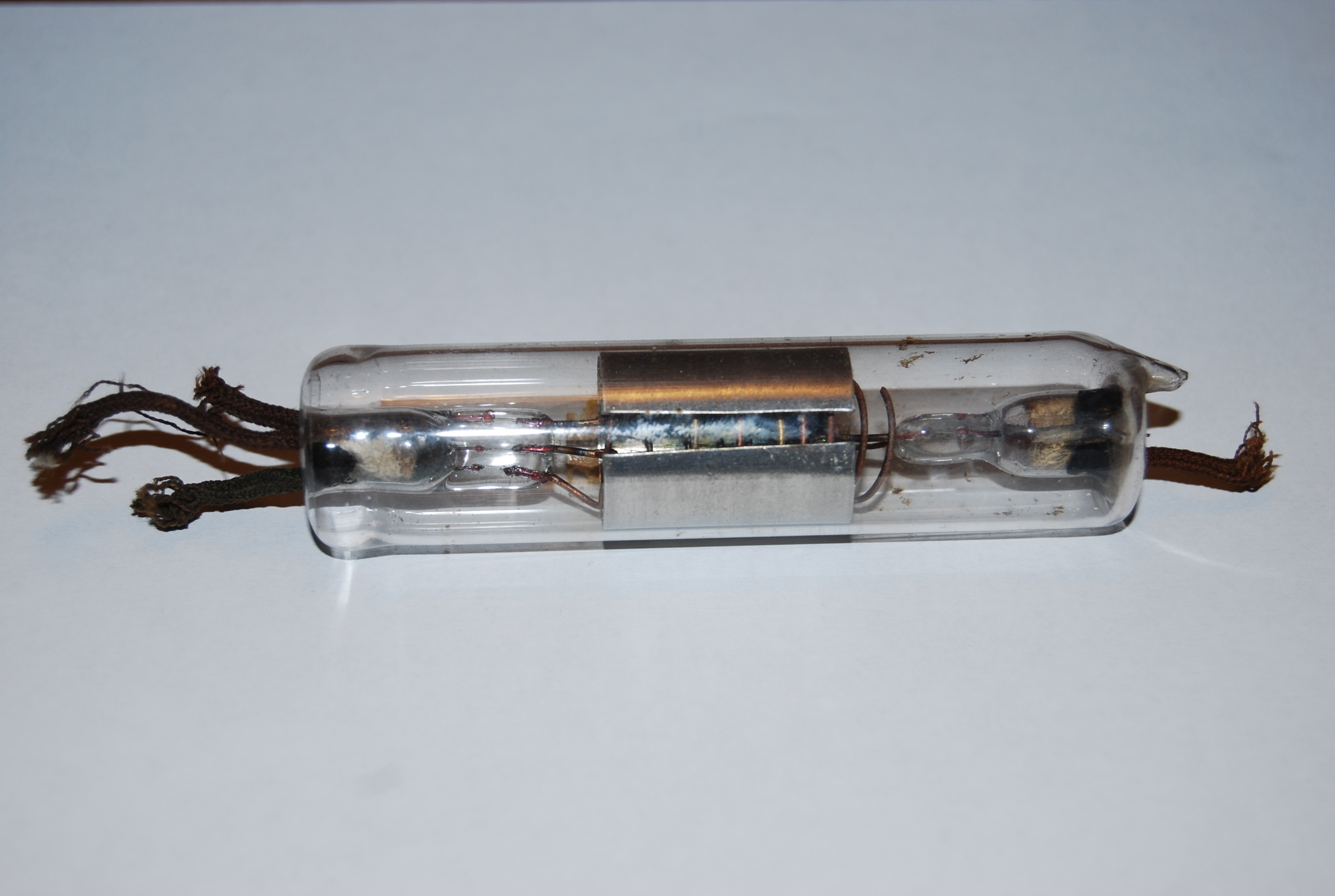 The Audio Tron Tube (1915-1917). Many companies tried to avoid paying royalties to DeForest and Flemming by "bootlegging" tubes or selling an unlicensed product. Cunningham's Audio Tron was one of the most successful bootlegged tubes.